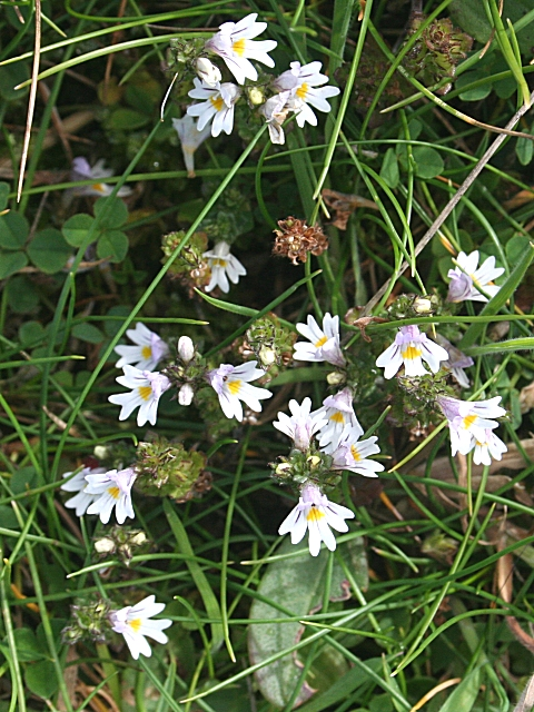 Eyebright (Euphrasia officinalis) This plant is so named because it was used medicinally for eye problems.